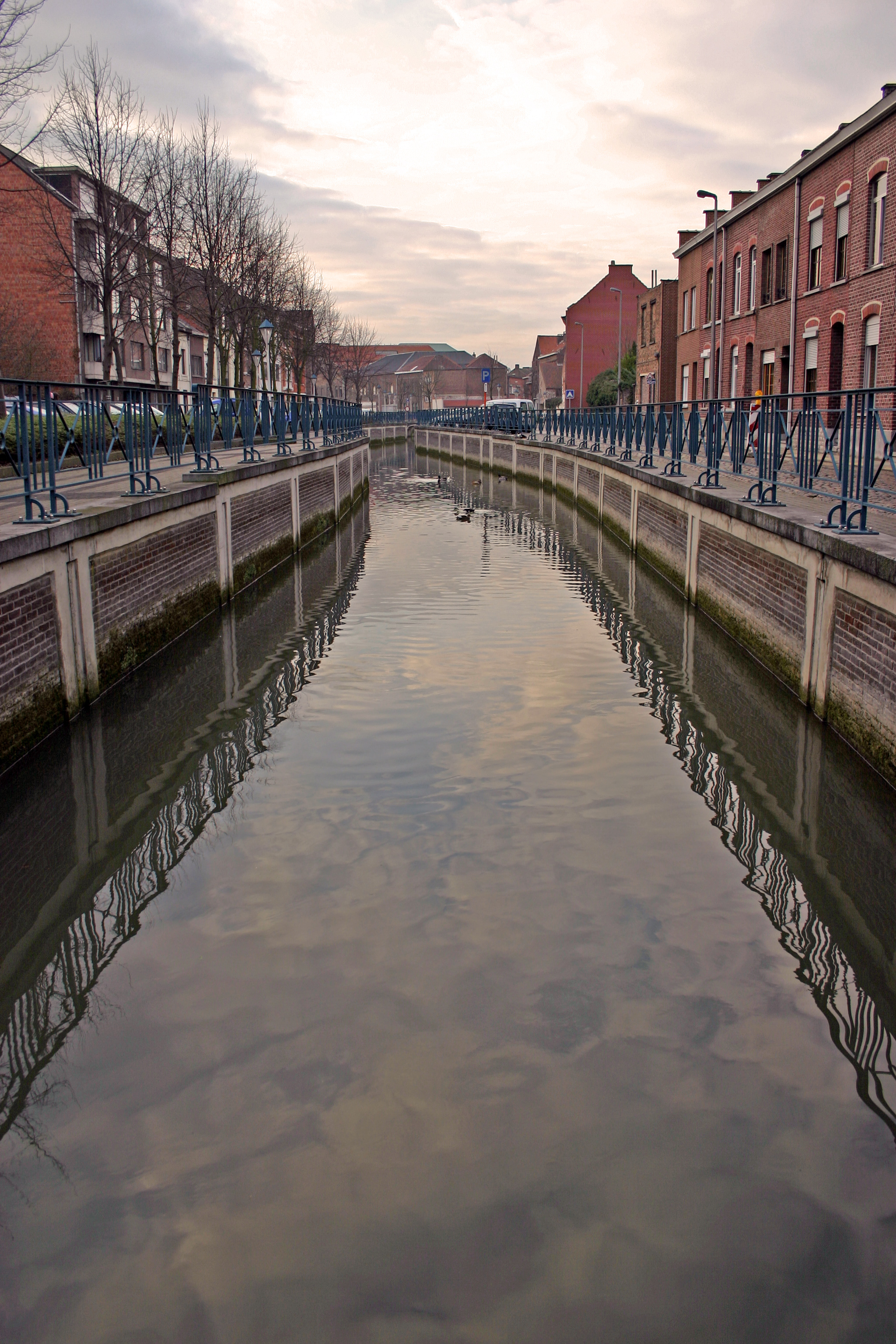 River Grote Gete in Tienen (The Flanders, Belgium)